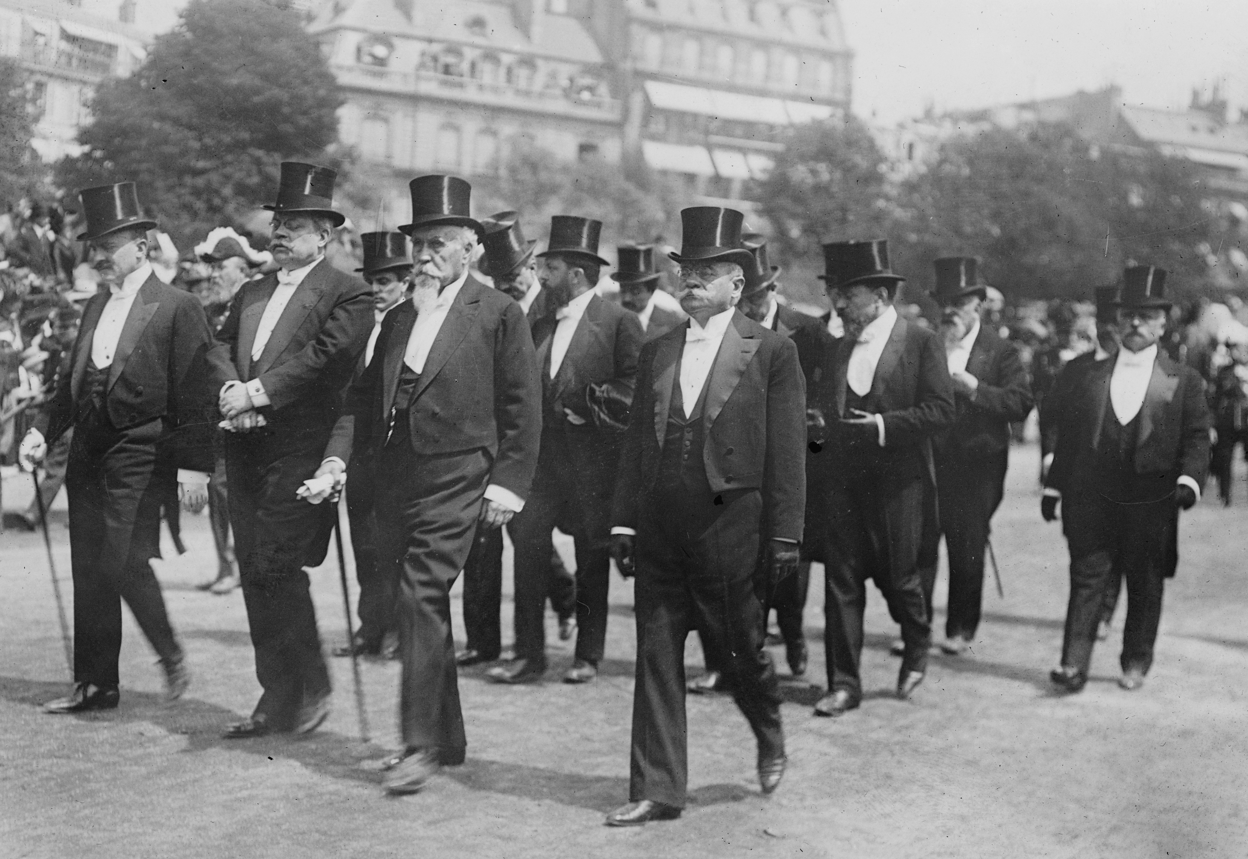 French Ministers at Berteaux funeral. Caillaux, Cruppi, Perrier, Delcasse Photo shows ministers at state funeral on May 26, 1911 of Maurice Berteaux (1852-1911), French Minister of War.